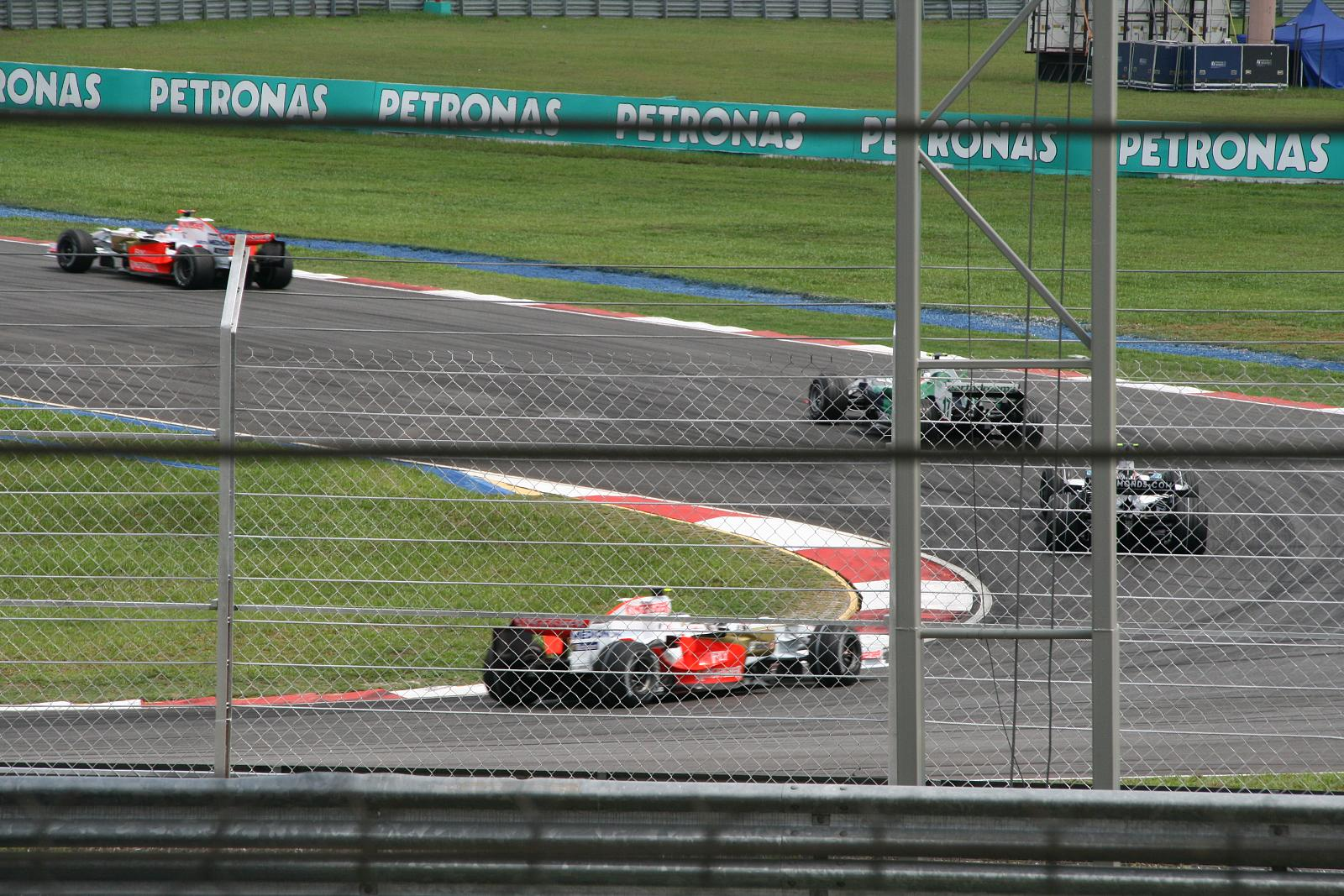 Four cars at the 2008 Malaysian Grand Prix